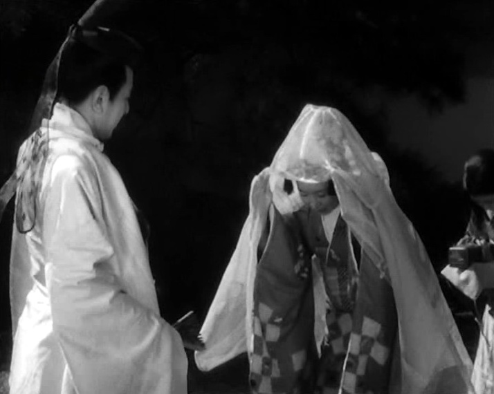 Screenshot from The Life of Oharu, 1952 film. Kinuyo Tanaka as Oharu.